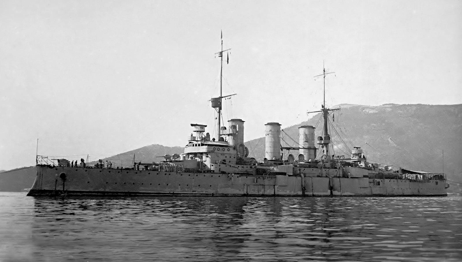 Italian Armored cruiser, "Pisa", 1918